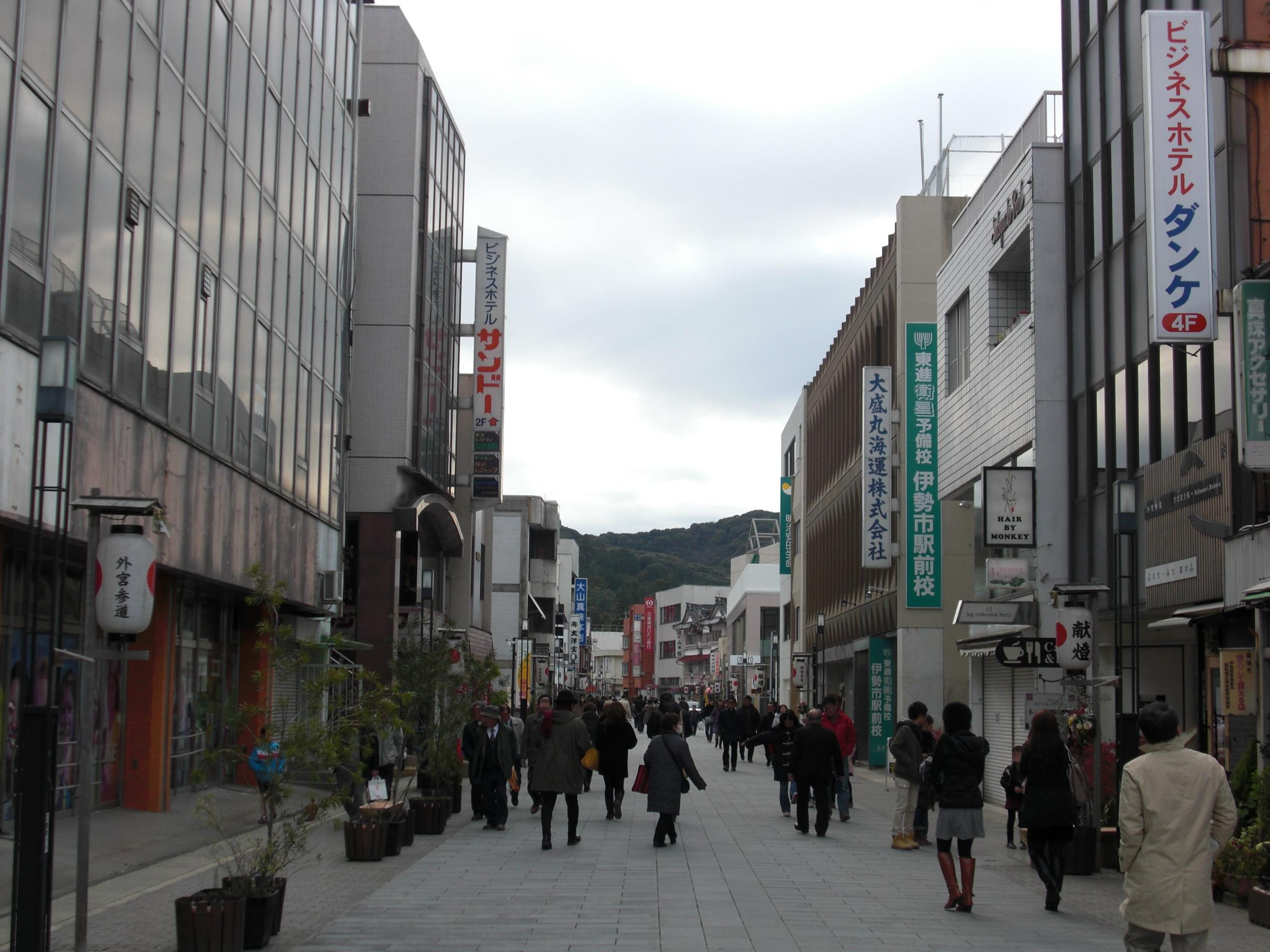 This is a landscape of Hommachi, Ise, Mie, Japan.